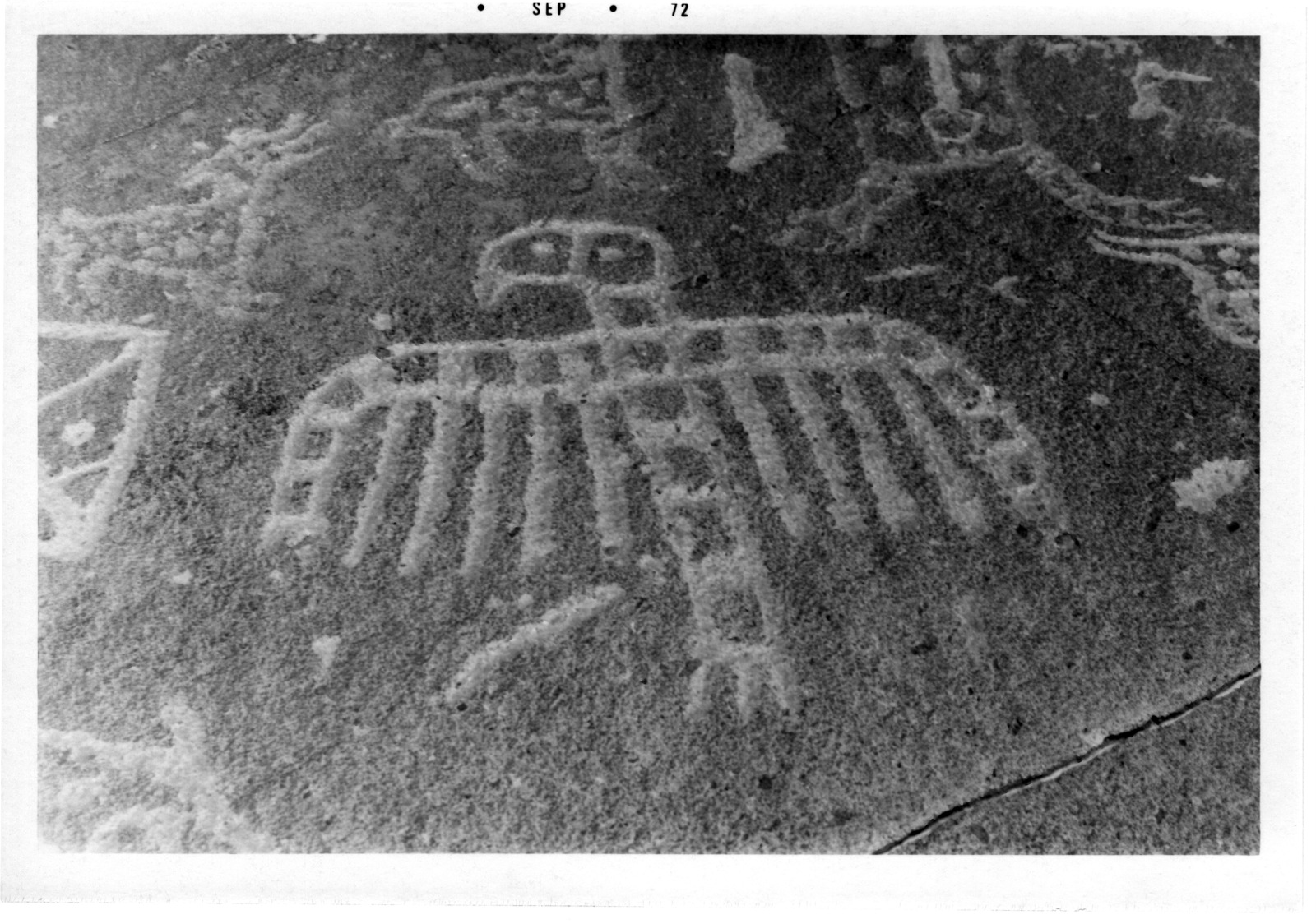 These petroglyphs are at the site of Toro Muerto in southern Peru. The site is in a desert in the Majes valley about 170 km from Arequipa. Some archaeologists believe the carvings were made by the Wari culture over 1,000 years ago, and perhaps added to by subsequent societies. I took these photos when I visited Toro Muerto in 1972. I understand the site has suffered destruction since then, and is threatened by development today. A few descriptions I have read recently say the carvings are widely scattered and are few and far between. This differs from my recollection of 35 years ago. It seemed to me there were petroglyphs everwhere you looked. hese petroglyphs are at the site of Toro Muerto in southern Peru. The site is in a desert in the Majes valley about 170 km from Arequipa. Some archaeologists believe the carvings were made by the Wari culture over 1,000 years ago, and perhaps added to by subsequent societies. I took these photos when I visited Toro Muerto in 1972. I understand the site has suffered destruction since then, and is threatened by development today. A few descriptions I have read recently say the carvings are widely scattered and are few and far between. This differs from my recollection of 35 years ago. It seemed to me there were petroglyphs everwhere you looked.